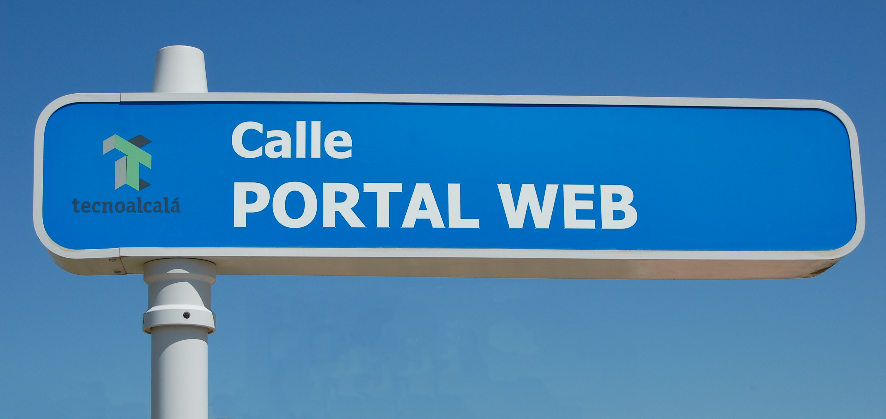 Street sign dedicated to Web portal, in Alcalá de Henares (Community of Madrid - Spain).